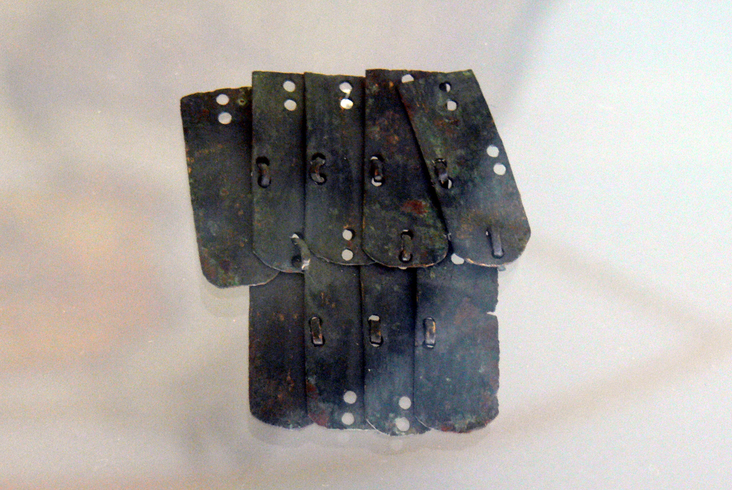 Wels ( Upper Austria ). City Museum Minoritenkloster - Roman department: Fragment of an ancient Roman scale armour.